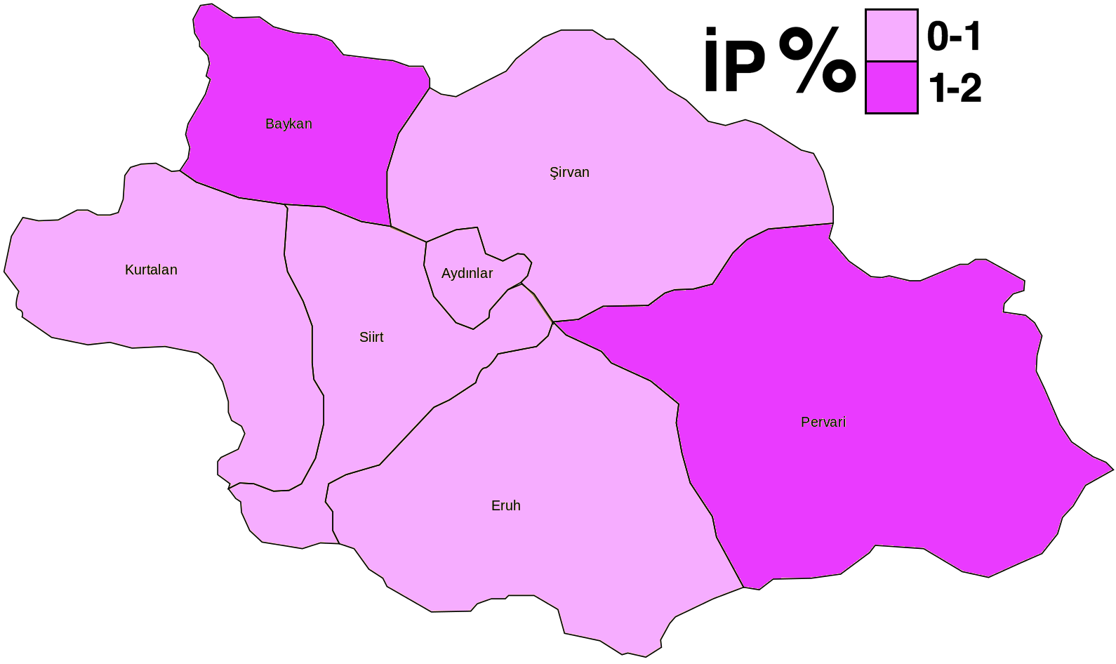 Votes received by the İP in the 2003 Siirt by-election